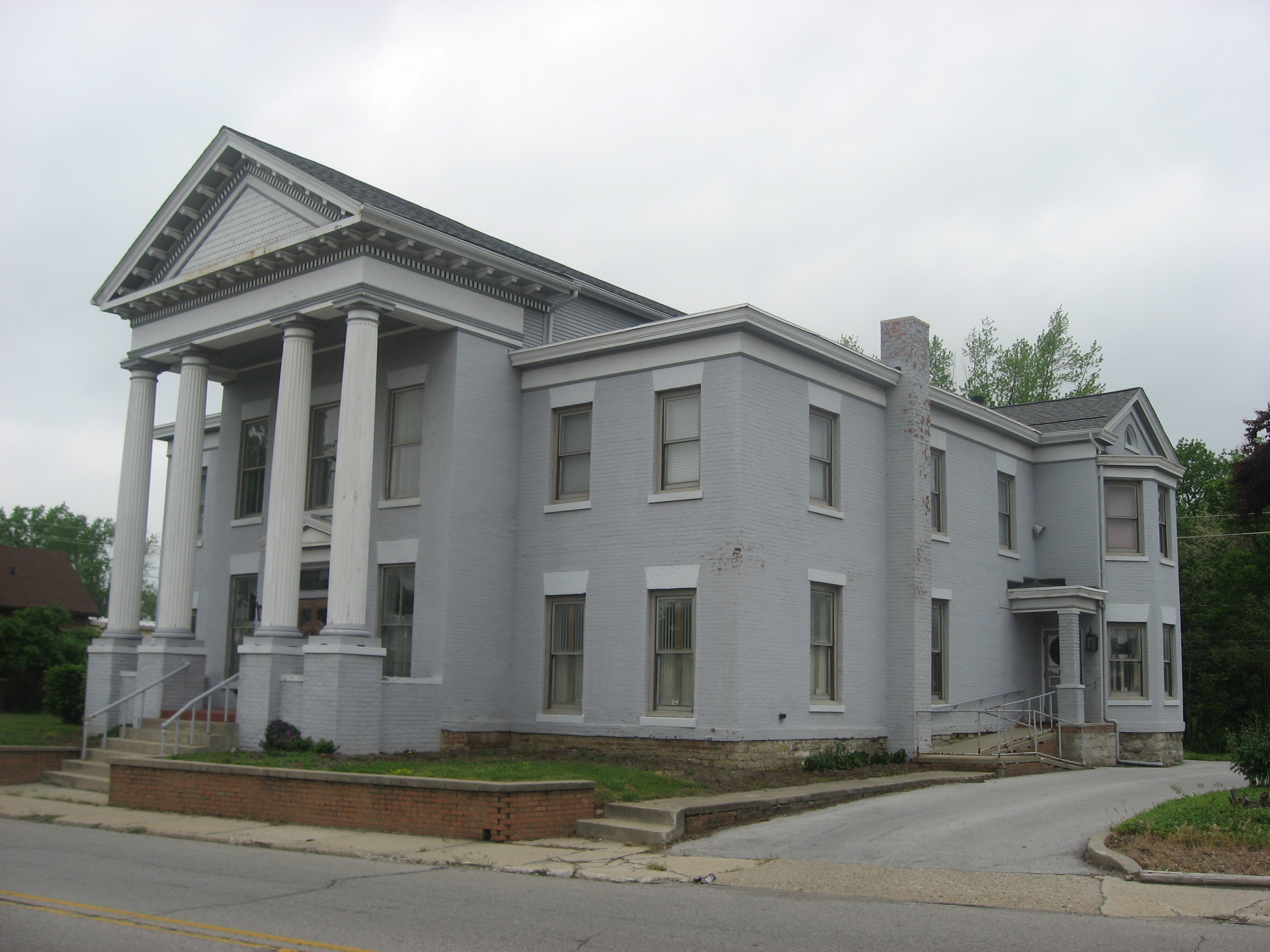 Front and eastern side of the Hugh McCulloch House, located at 616 W. Superior Street in Fort Wayne, Indiana, United States. Built in 1843, it is listed on the National Register of Historic Places.